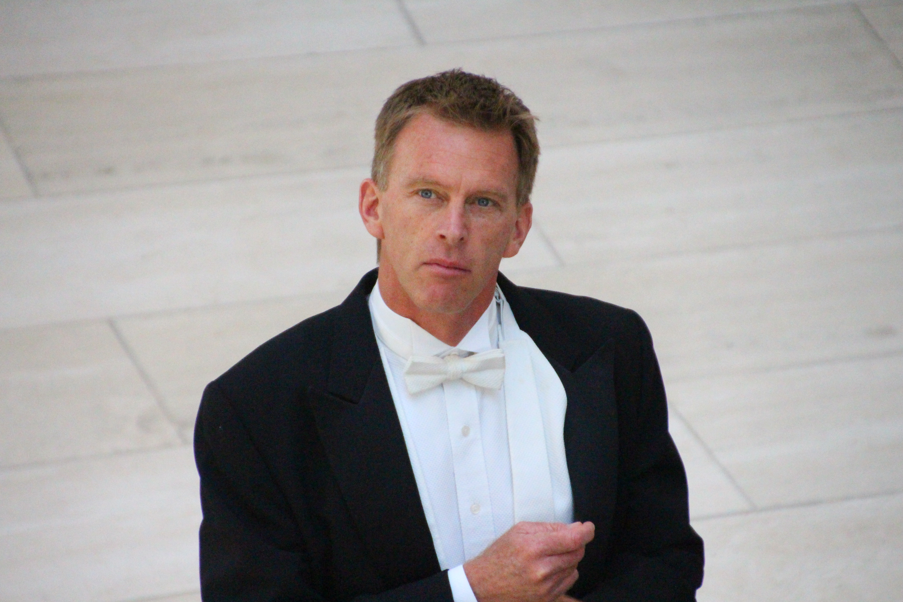 Joshua Habermann, choral director of the Dallas Symphony Chorus and the Santa Fe Desert Chorale.